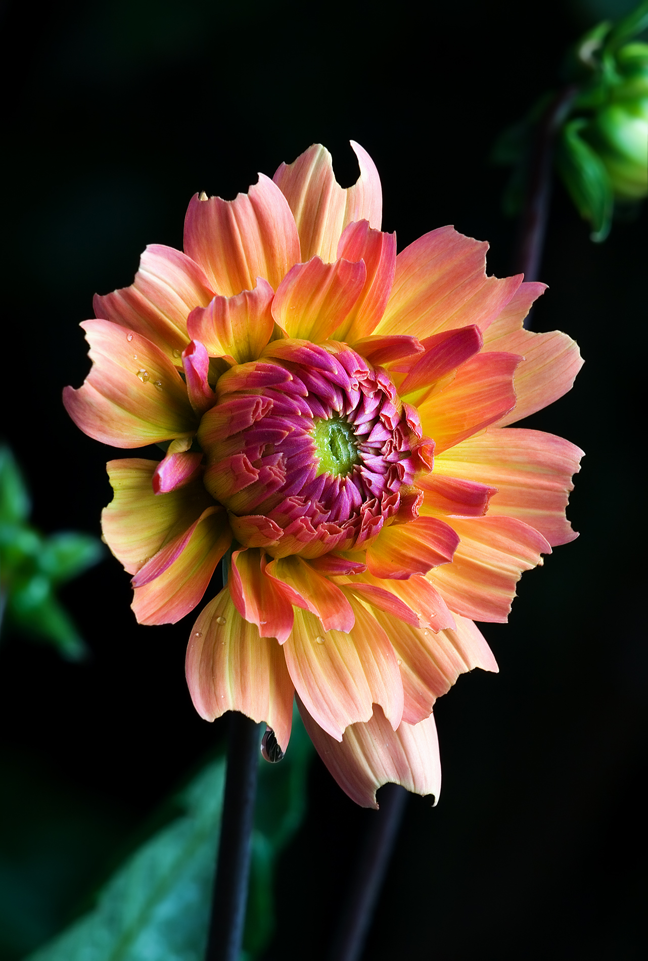 Dahlia 'Graceland'